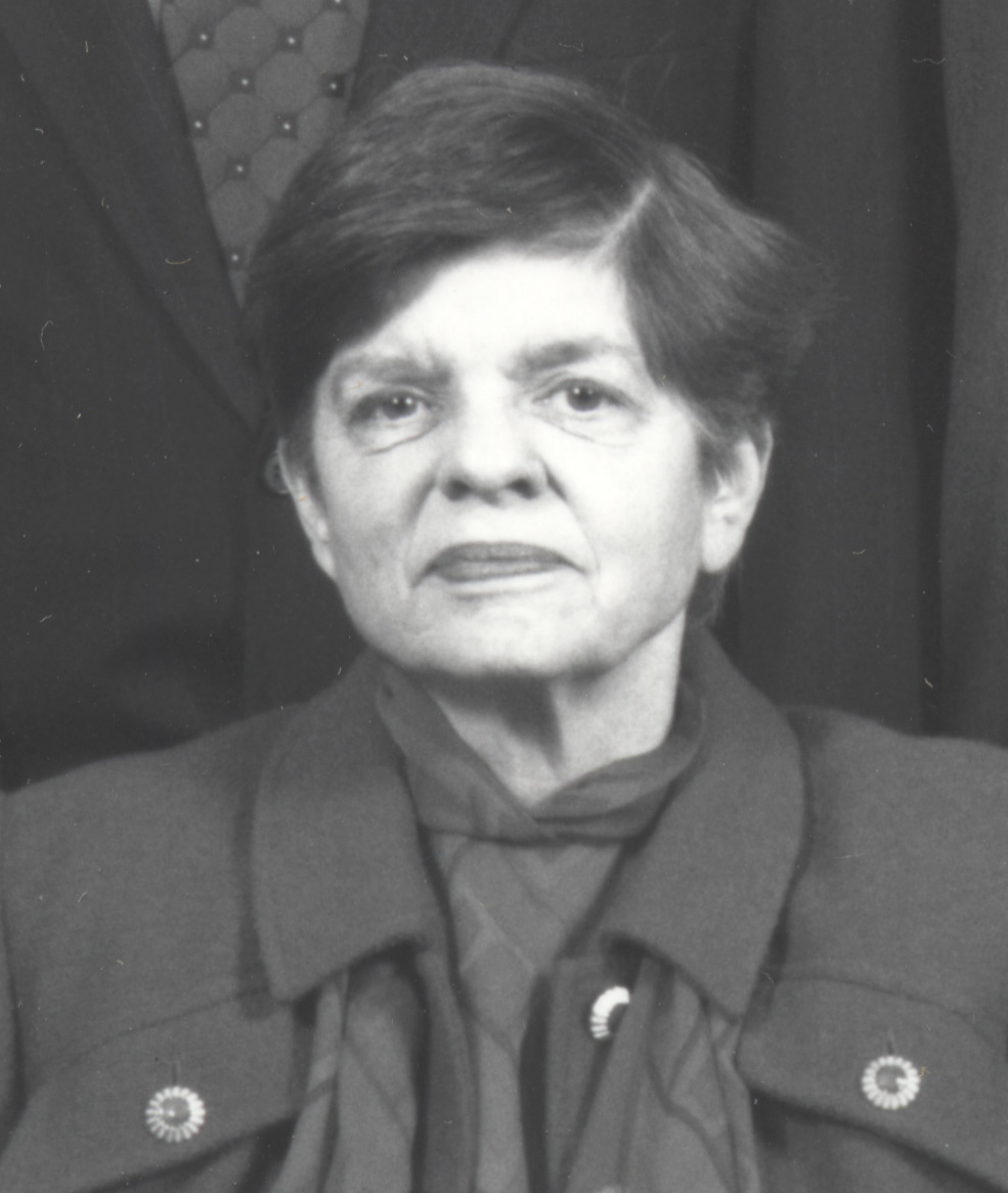 1997 Board, left to right seated: Alice M. Rivlin (Vice Chairman), Alan Greenspan (Chairman), Roger W. Ferguson Jr. (Governor), standing: Laurence H. Meyer (Governor), Edward M. Gramlich (Governor), Edward W Kelley Jr. (Governor), Susan M. Phillips (Governor) Photo credit: Brooks/Glogau Studio